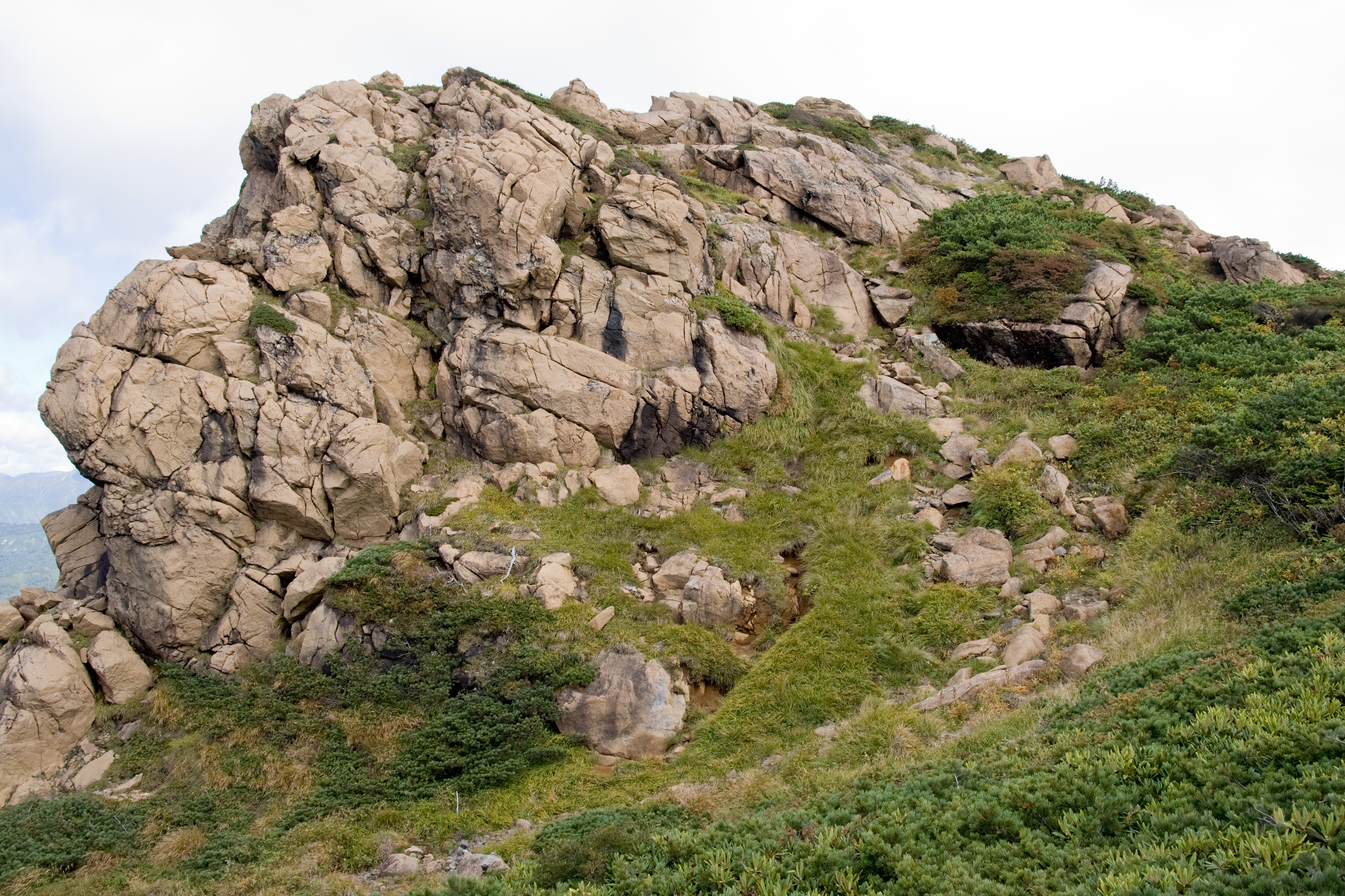 Mt. Shibutsu, Katashina Vill., Gunma Pref., Japan